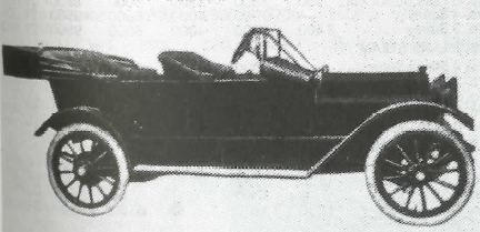 1914 Lambert automobile model 46-C touring